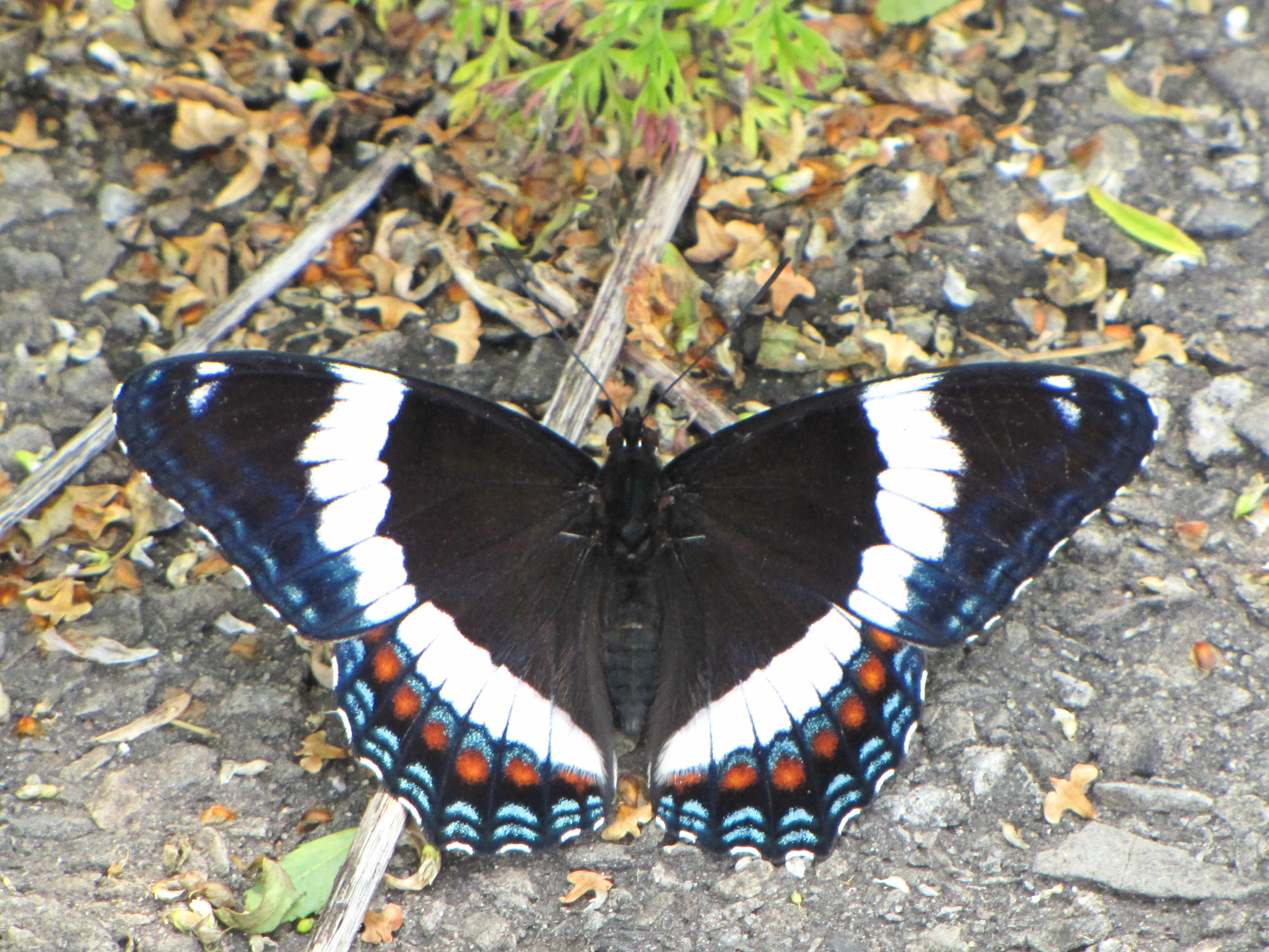 White Admiral (Limenitis arthemis arthemis), Mer Bleue Conservation Area, Ottawa, Ontario